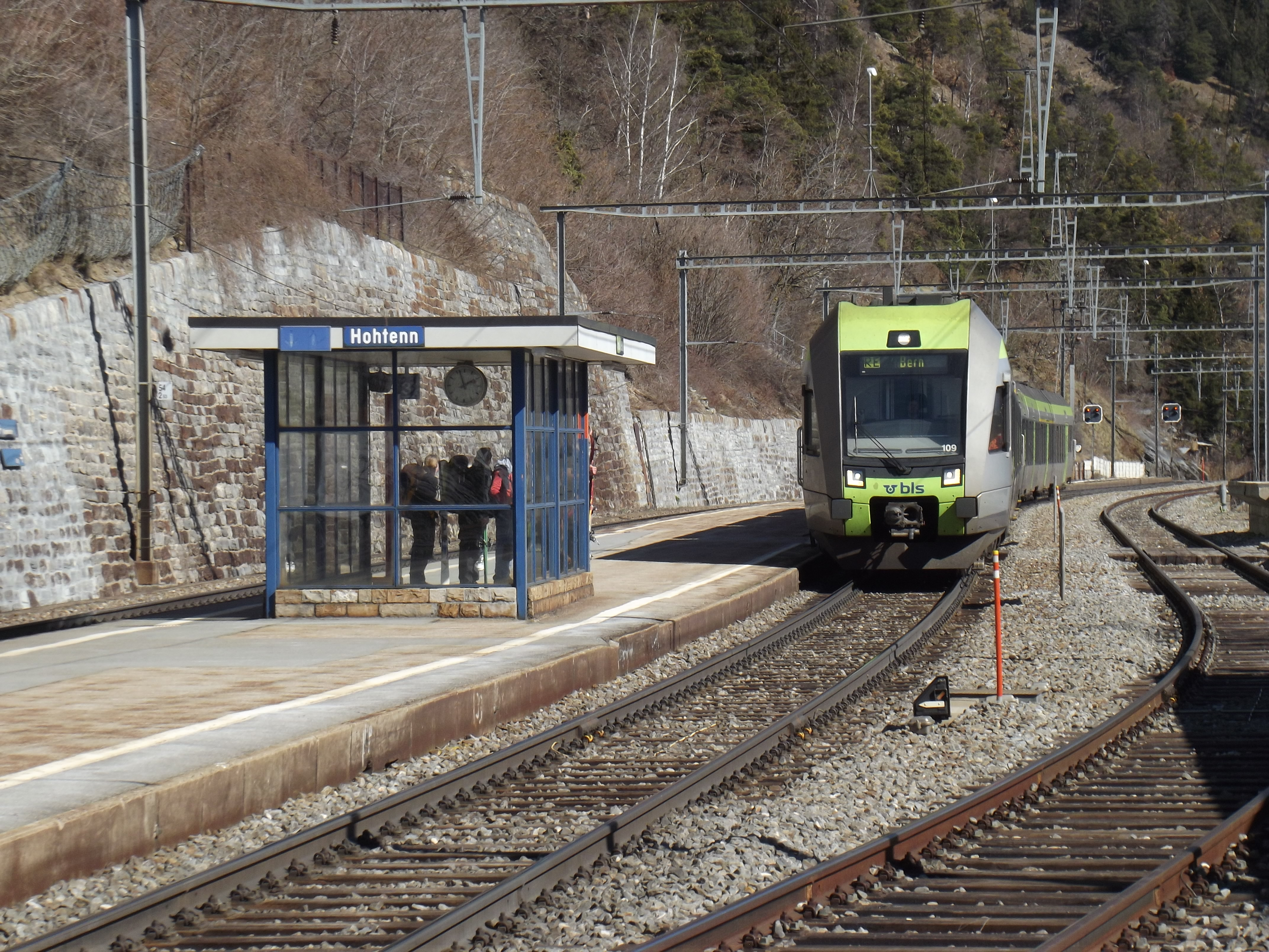 Local train service at Hohtenn station by BLS Lötschberger trains